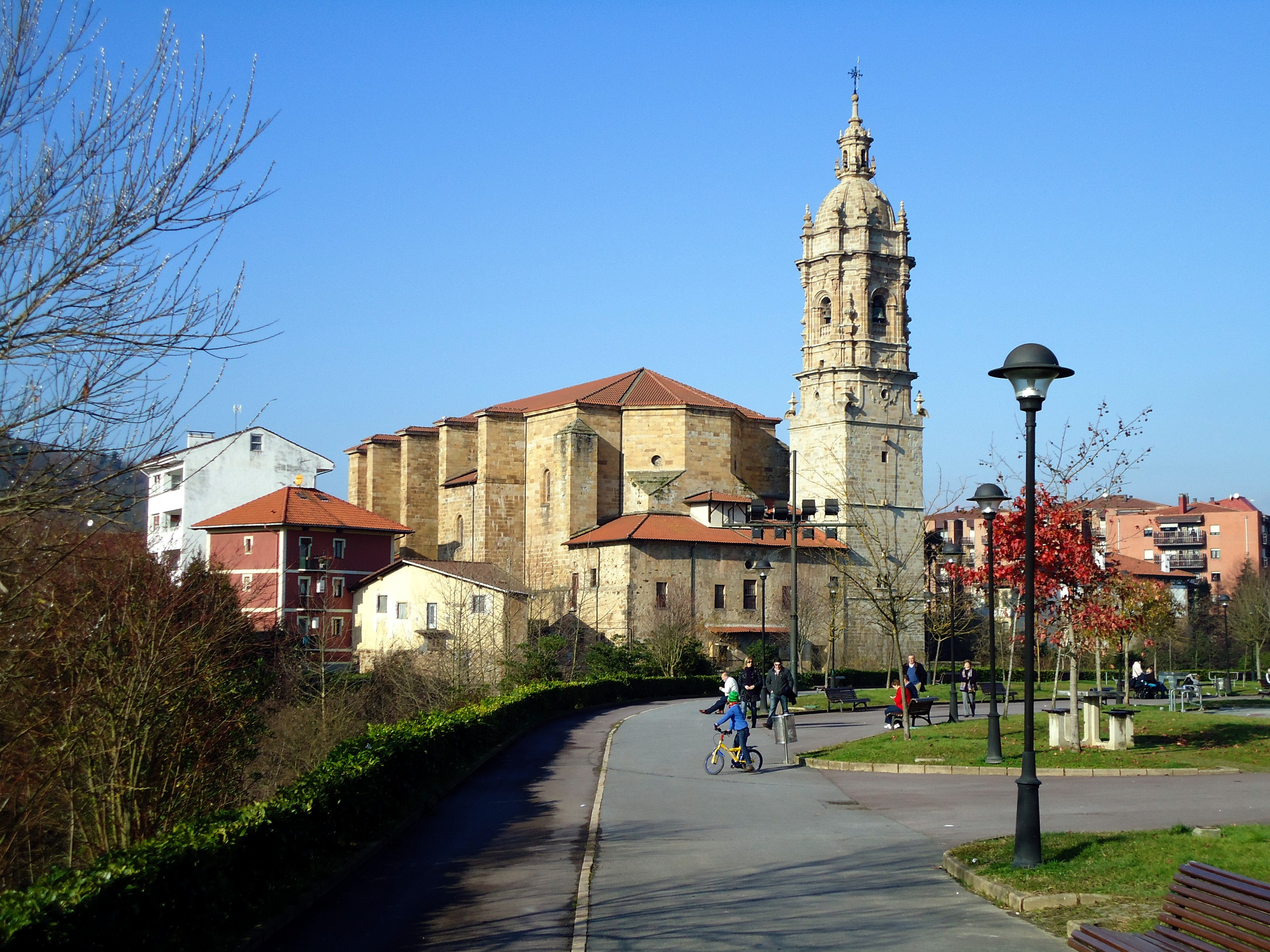 Church of Zornotza (Biscay, Basque Country)